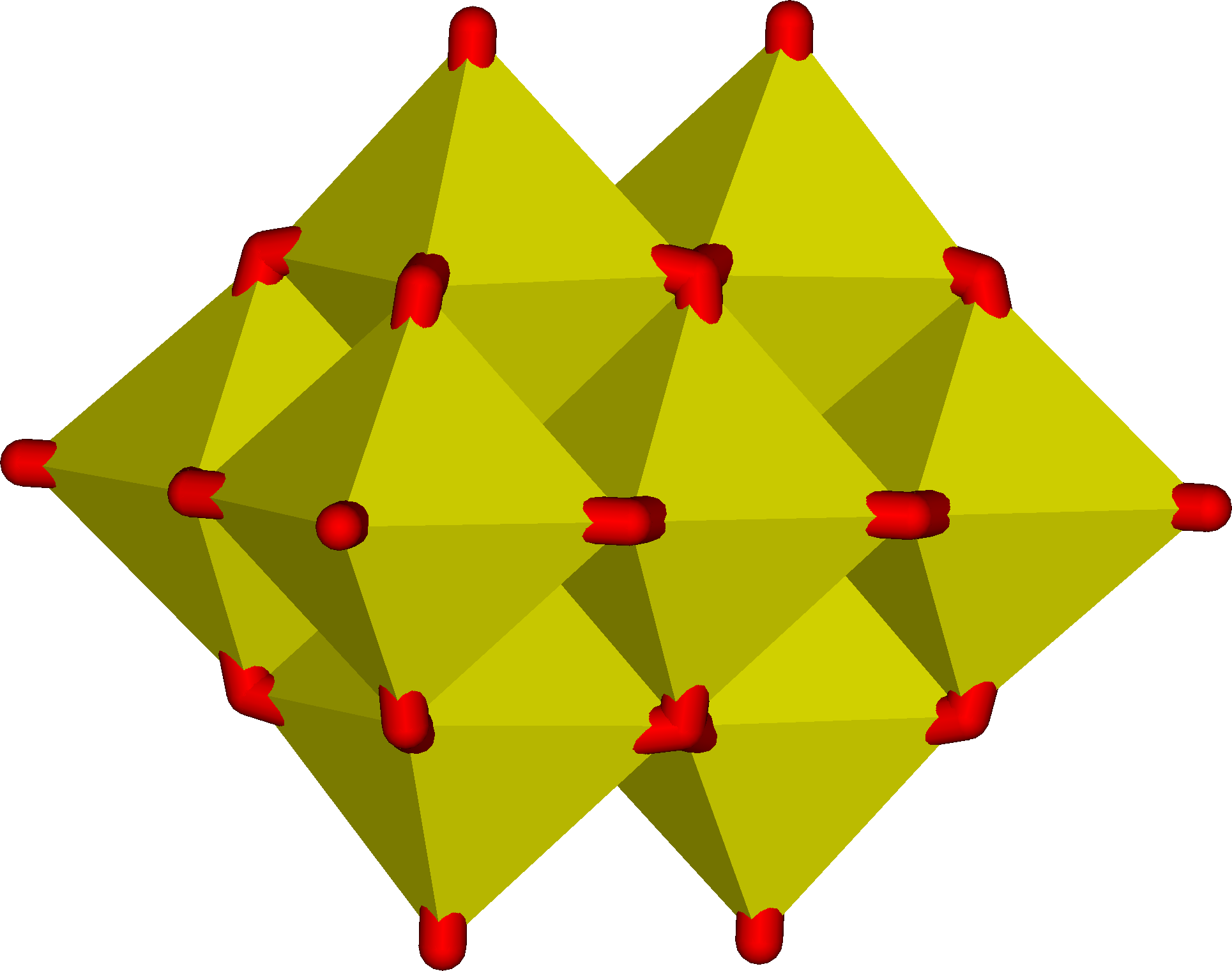 decavanadate ion image based on vanadate ion described in "Dipotassium bis[hexaaquacobalt(II)] decavanadate tetrahydrate, U. Lee, Y.-H. Jung and H.-C. Joo, Acta Cryst. (2003). E59, i72-i74